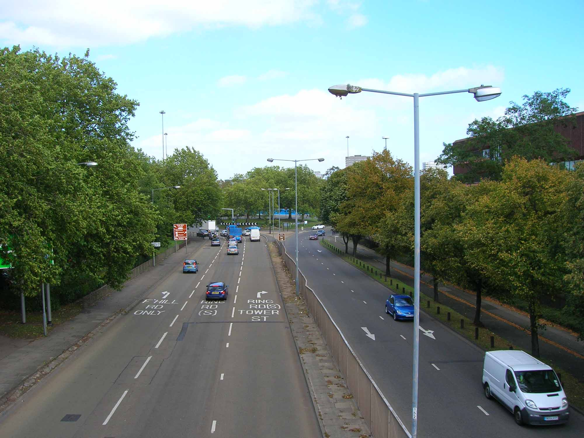 Coventry Ringway St Nicholas